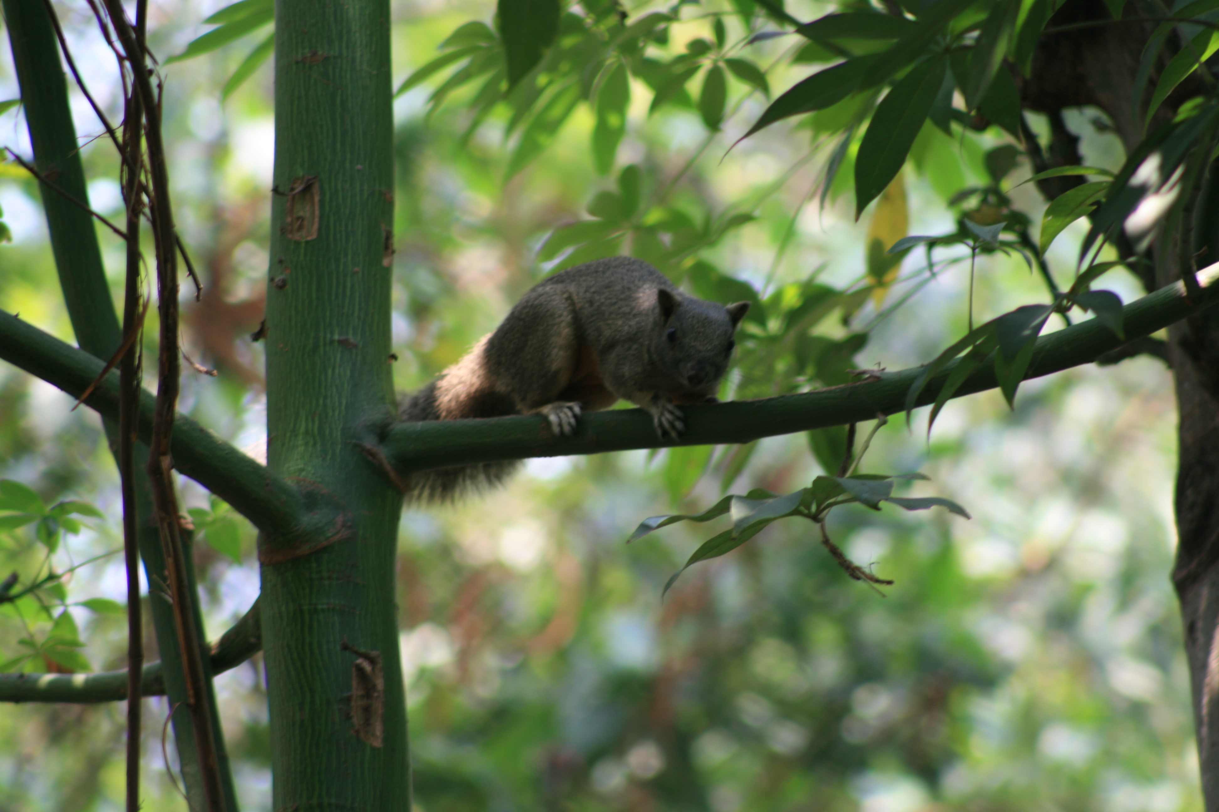 A squirrel at Damsen Park, Hochiminh City, Vietnam